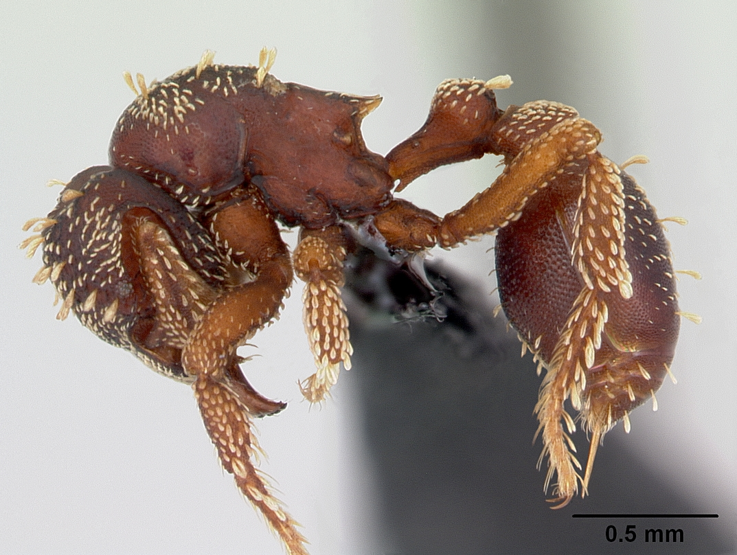 Profile view of ant Eurhopalothrix bolaui specimen casent0107554.